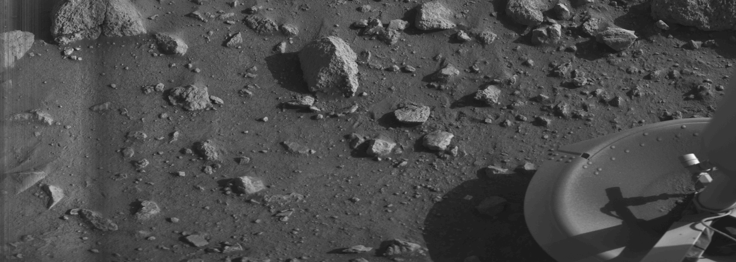 First Clear Image From Mars Surface (Viking 1, July 20, 1976). This is the first "clear" image ever transmitted from the surface of Mars. The Viking 1 image was taken only a few minutes after the landing. Engineers decided to program the probe to quickly take and send an image of a footpad (in this case footpad number 3) because it was feared that earlier Soviet probes, which stopped transmitting shortly after touchdown, may have sank into quicksand. If Viking 1 met the same fate, they wanted to know about it this time. Some speculate that the cloudiness on the left side is due to dust left over from the landing. The cameras scanned one vertical strip at a time such that by the time the scanning moved to the center of the image, the dust had allegedly settled. The large rock near the center is about 10 cm across. NOTE: See File:Mars 3 Image.png for the first "actual" image transmitted from Mars - Mars 3 lander (Soviet Union), December 2, 1971 - the Mars 3 image, however, was unclear and contained "nothing identifiable" according to the Soviet Academy of Sciences (ref).